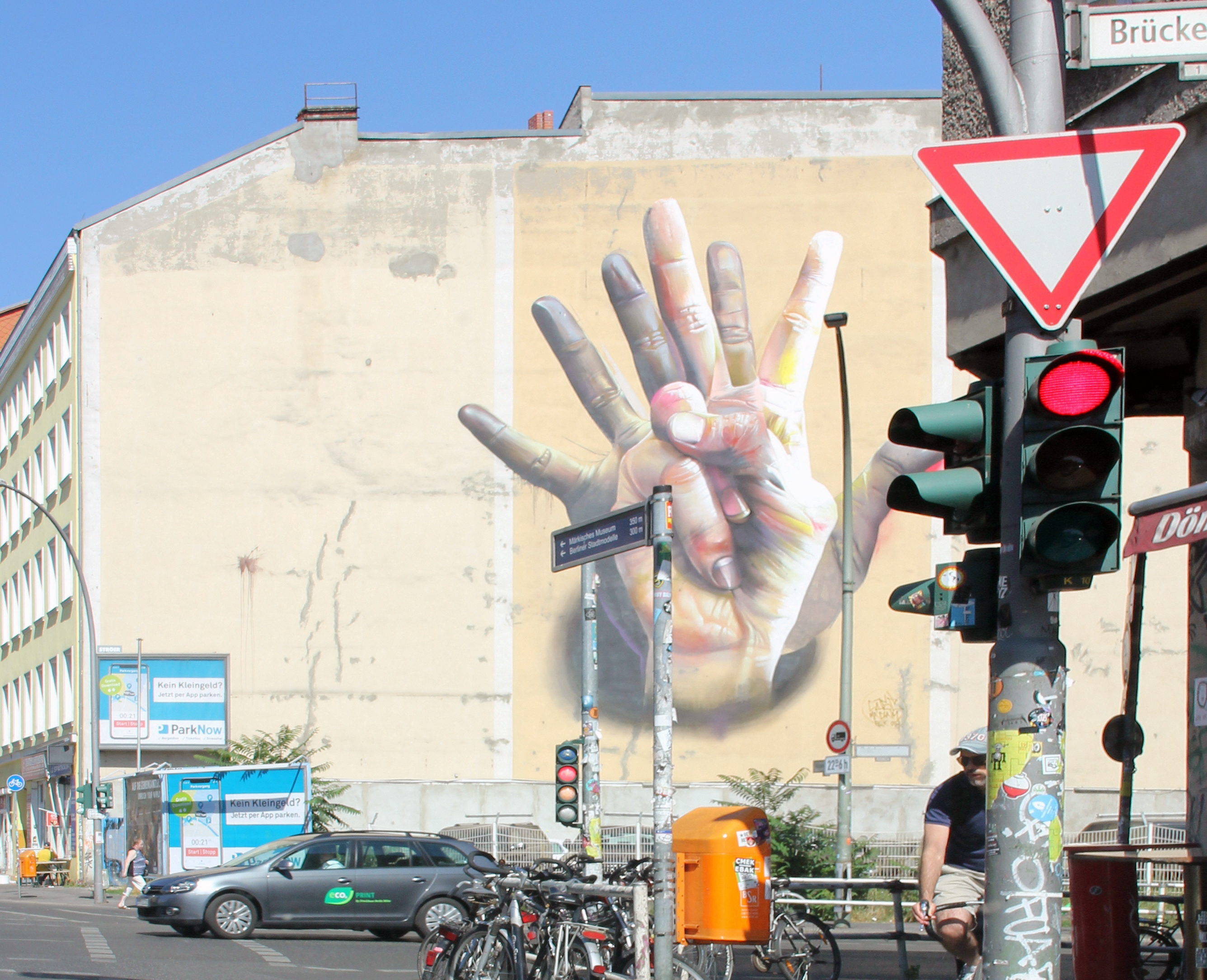 Murals, "Unter der Hand" by Andreas von Chrzanowski, 2014, Brückenstraße 16, Berlin-Mitte, Germany